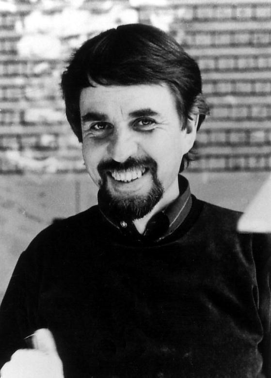 Per Åhlin, as released by image owner FamSACPlace: Sweden